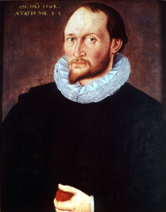 A portrait believed to be of Thomas Harriot (also spelt "Harriott" or "Hariot") (c. 1560 – 2 July 1621), an English astronomer, mathematician, ethnographer and translator, apparently painted during his lifetime.